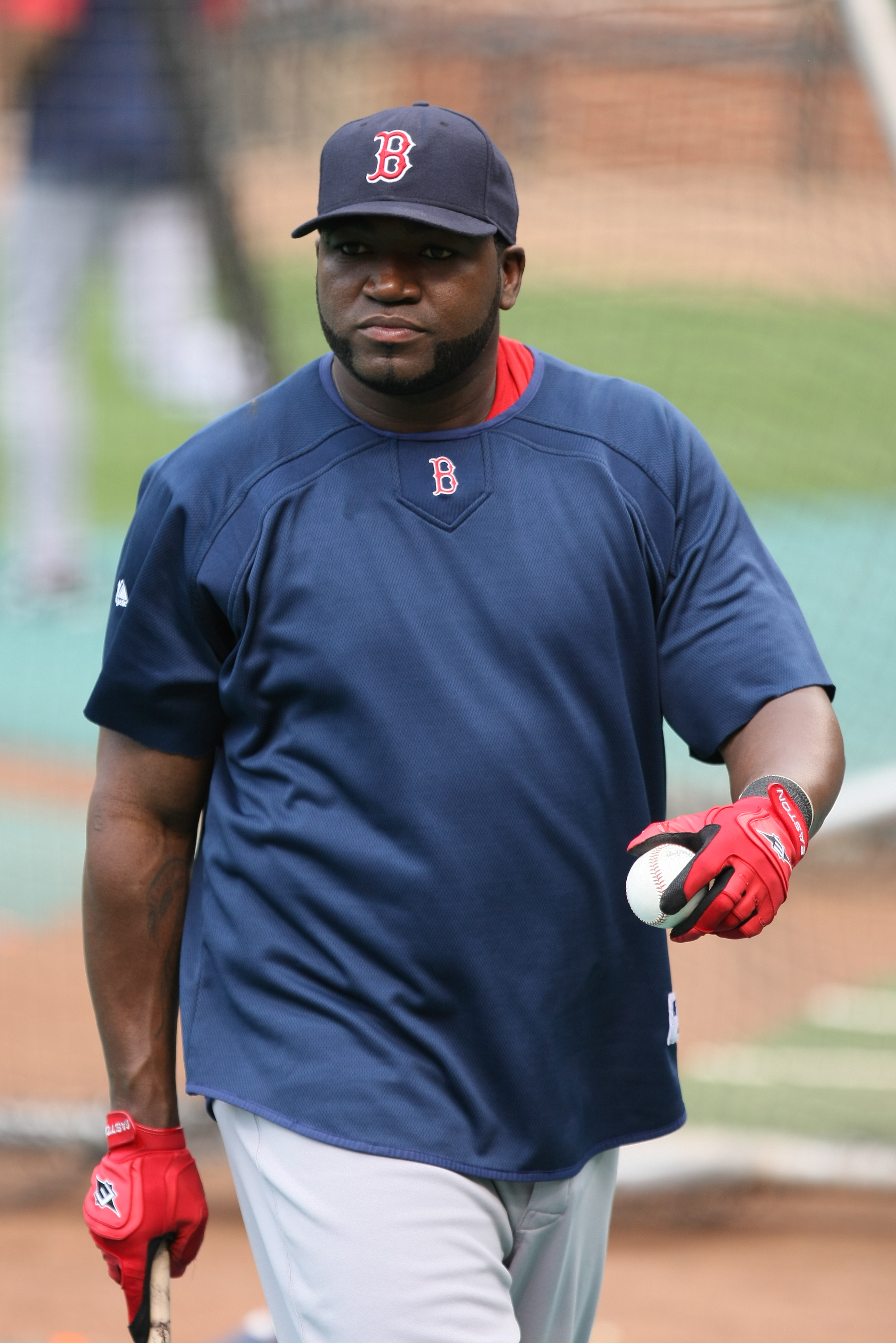 David Ortiz the Big papi in 2009.